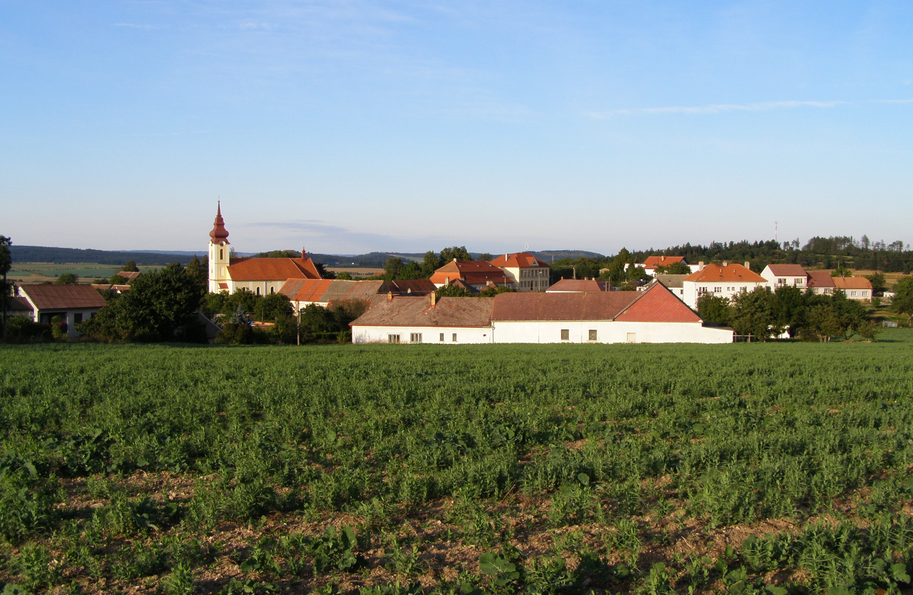 Babice village (Třebíč district). View to the north